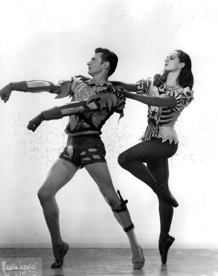 Photo of John Kriza and Lupe Serrano during a performance of "The Combat".